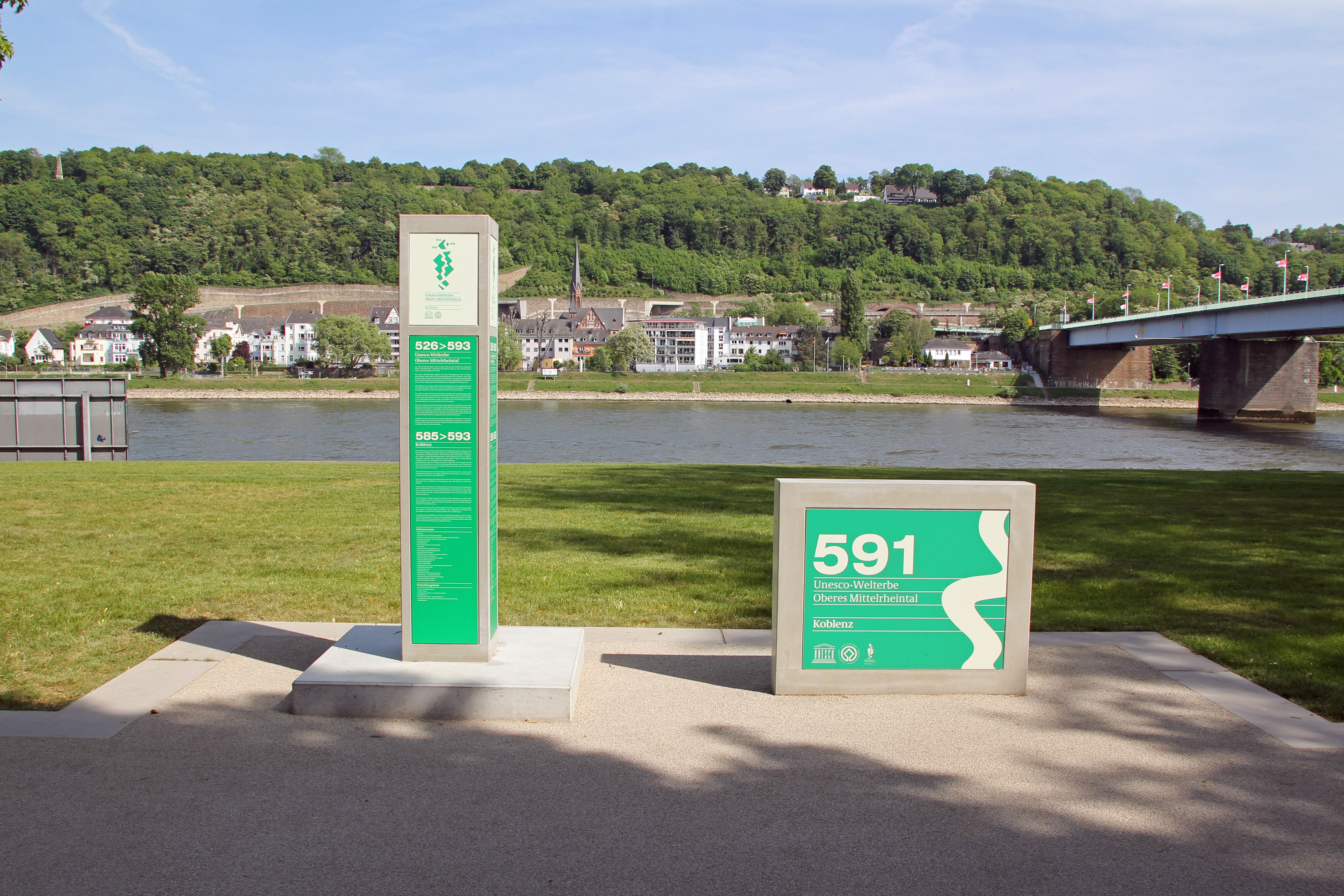 Rhine park in Koblenz